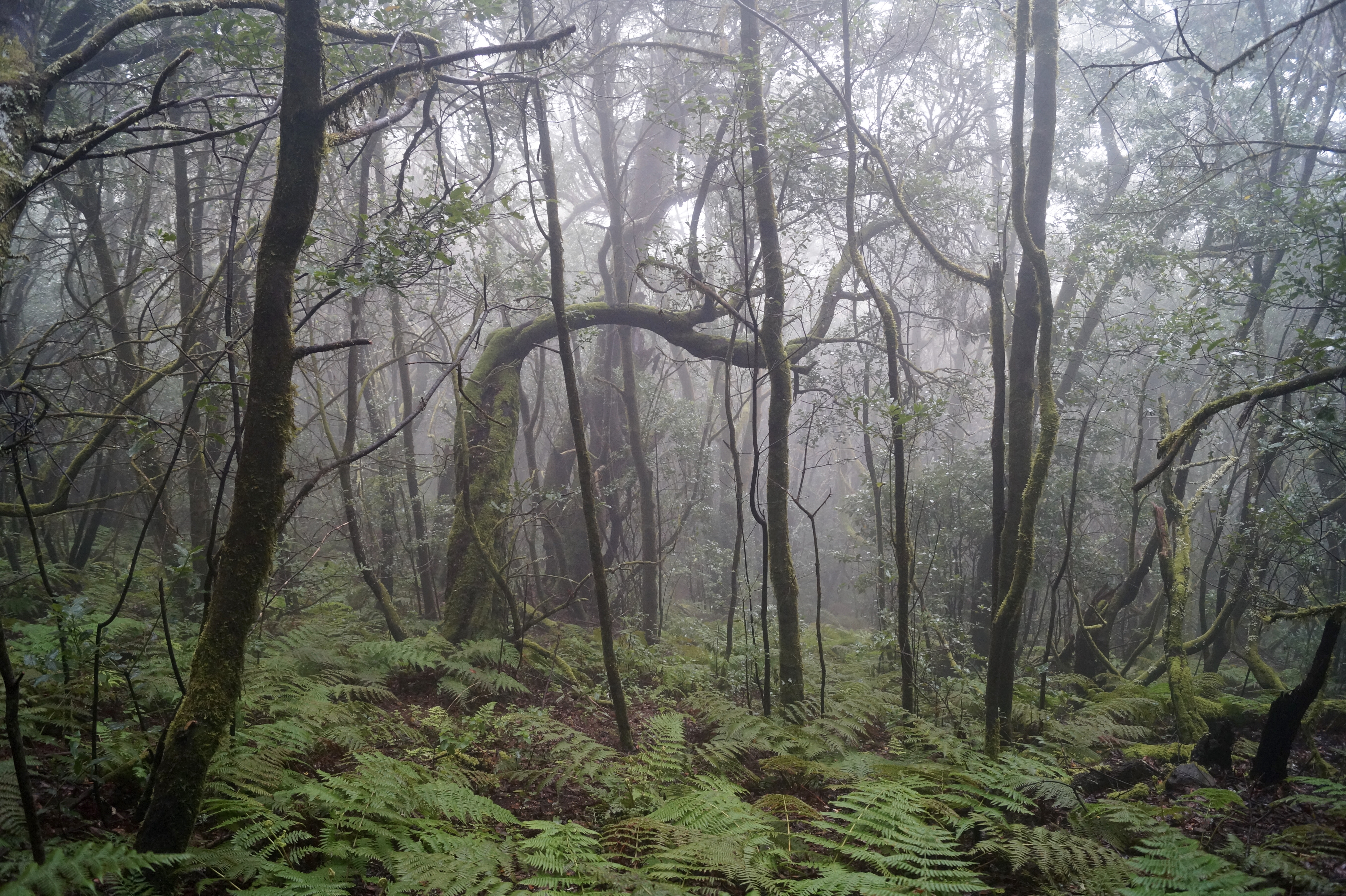 Laurisilva Trees in part of Garajonay National Park, La Gomera